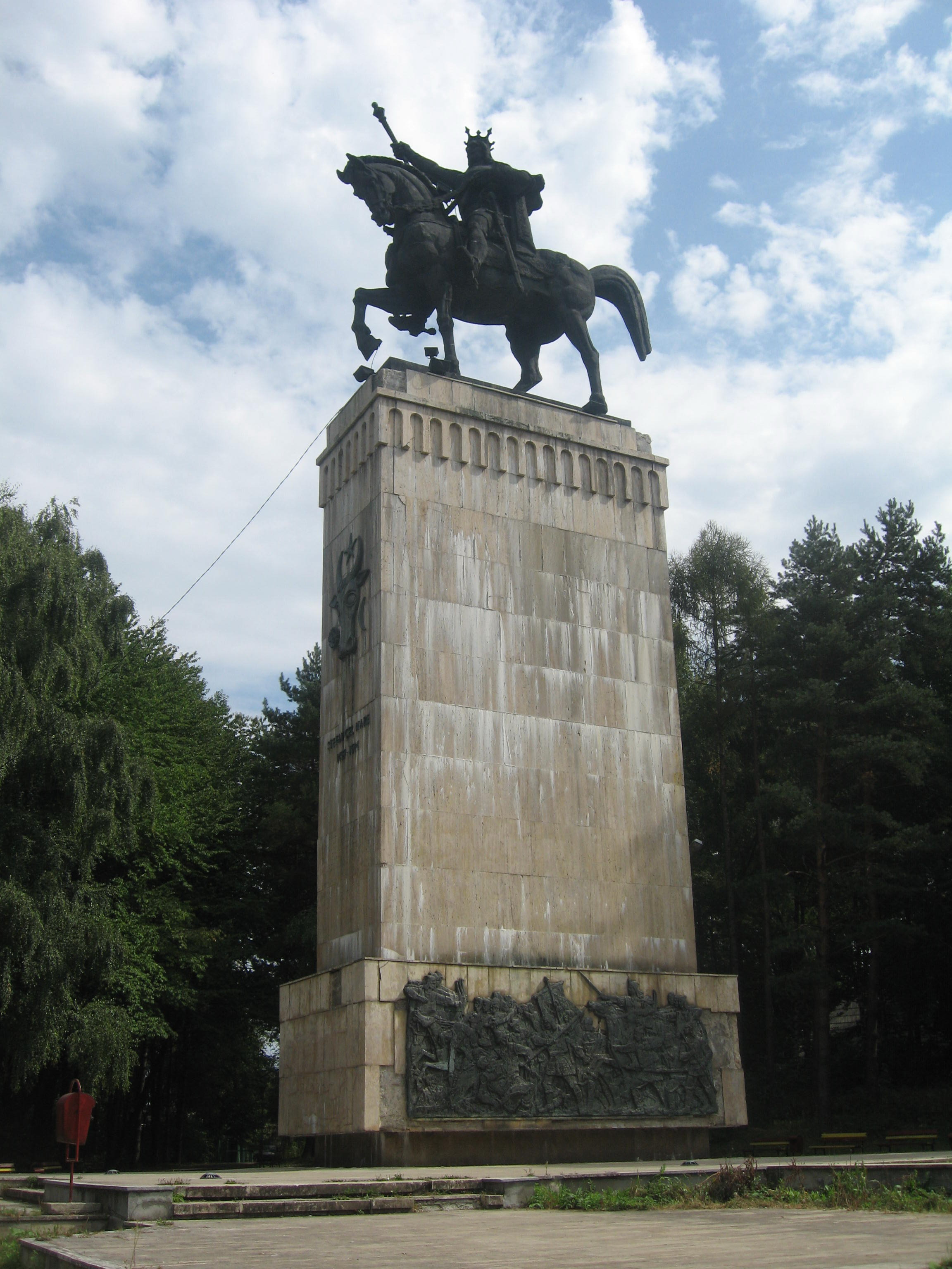 Equestrian Statue of Stephen III of Moldavia in Suceava.